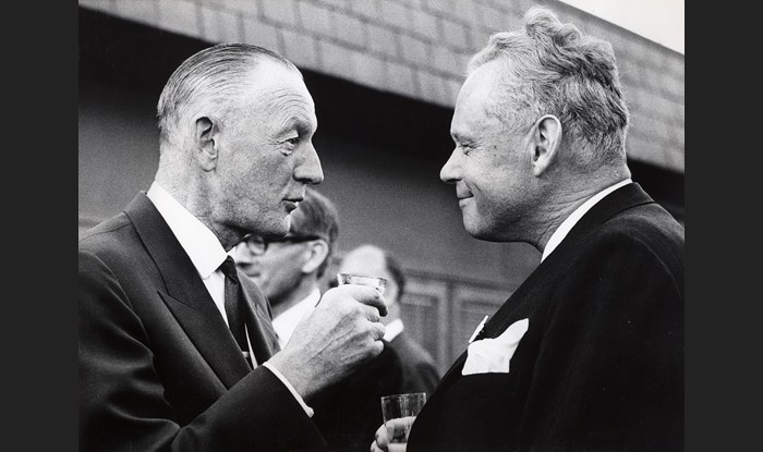 Swedish jurists and chief executive officers Pehr Gyllenhammar Senior (left) and Alvar Lindencrona (right) at the dinner following the merger of the Swedish insurance companies Lifförsäkrings AB Thule and Skandia